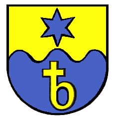 Old coat of arms of Beuron